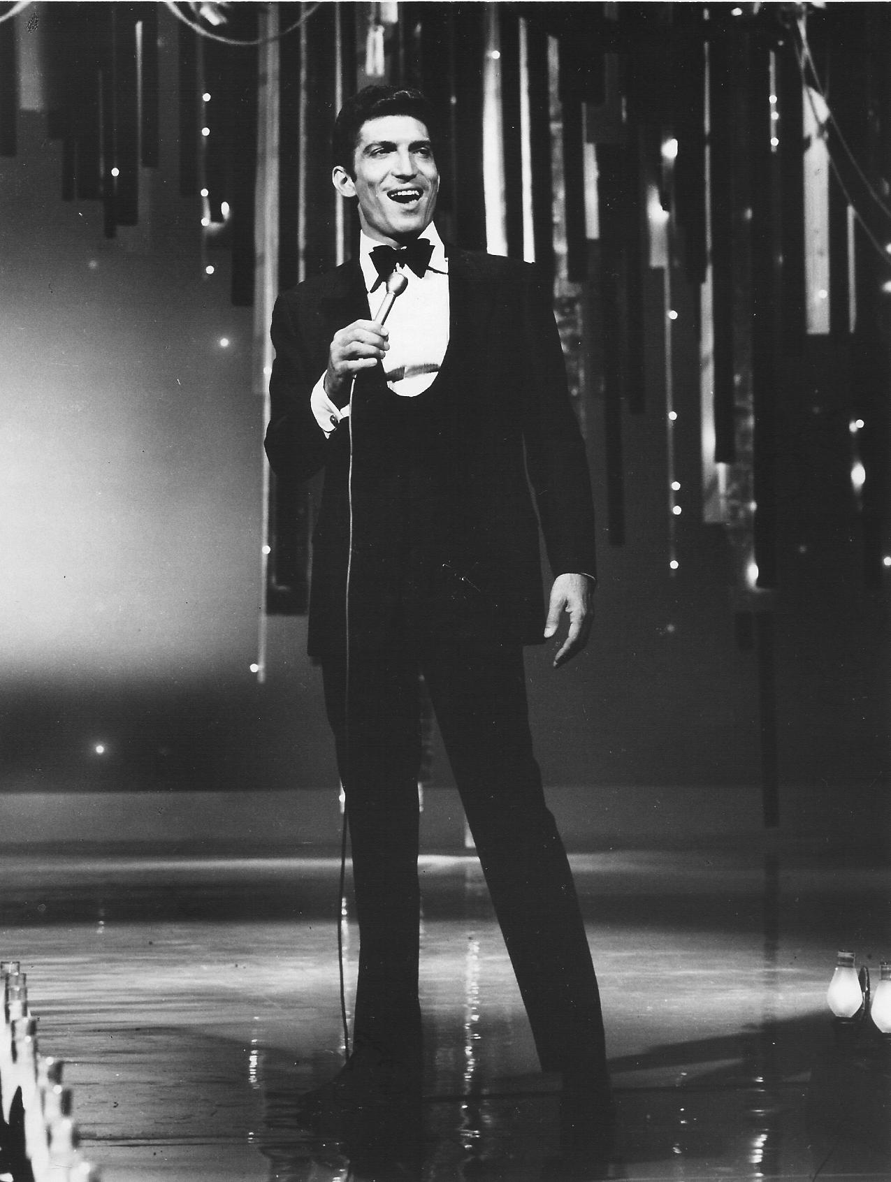 AP Wirephoto promoting Sergio Franchi appearance on ABC-TV show, Hollywood Palace